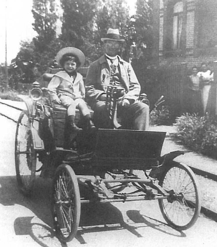 Historic photography